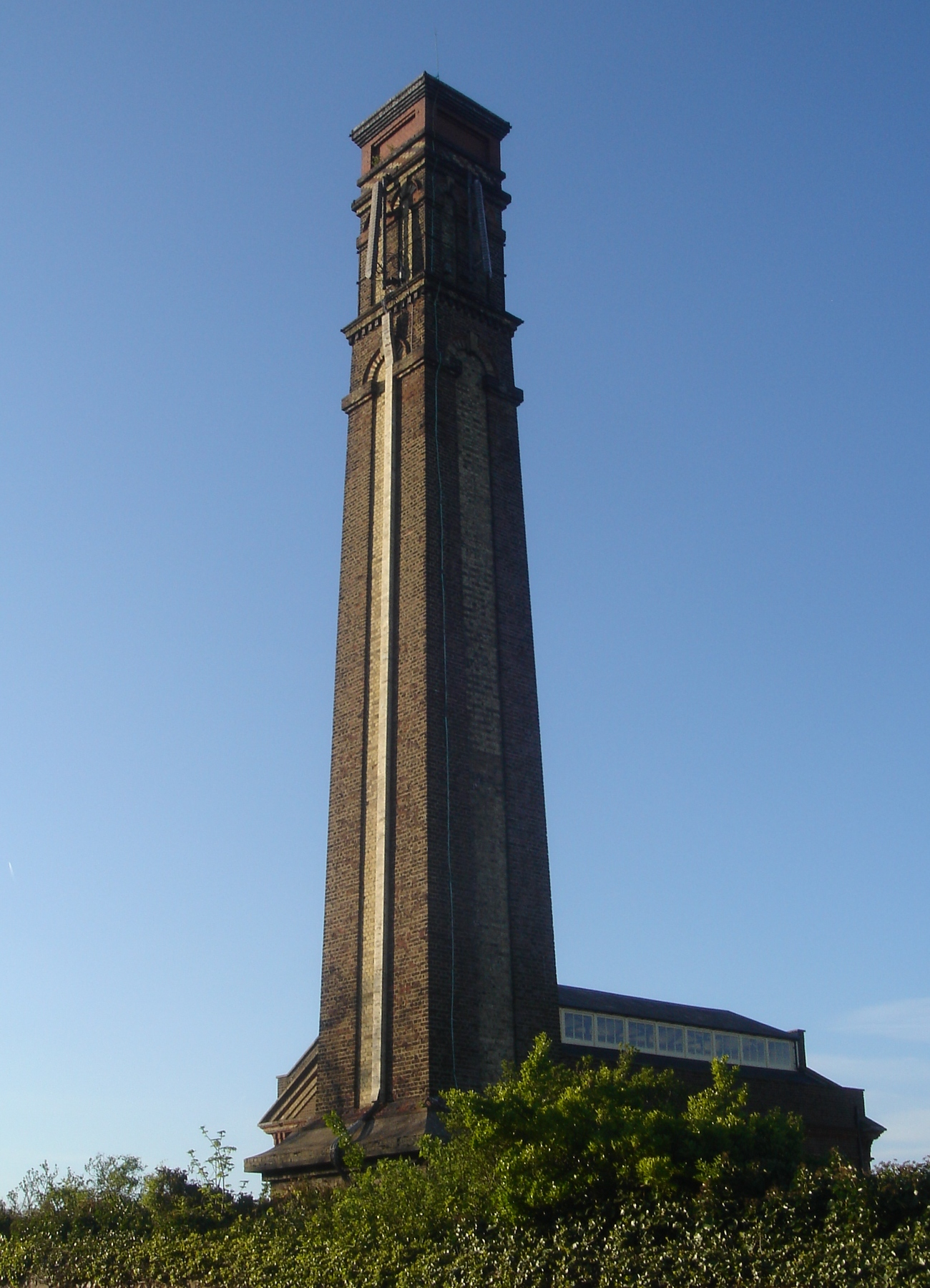 Chimney at the British Engineerium (former Goldstone Pumping Station), Hove, City of Brighton and Hove, England. Built in 1866. Listed at Grade II* by English Heritage (IoE Code 363578)